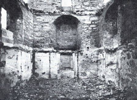 Ruins of Austråttborgen (en: The Manor of Austrått), in Ørland, Norway, after destroying fire November 29th 1916